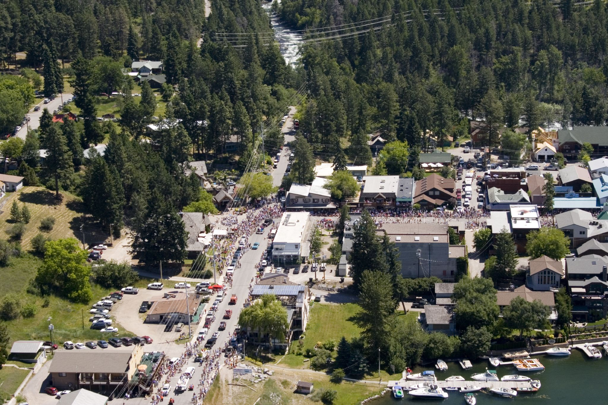 Bigfork, Montana during the Independence Day parade July 2007